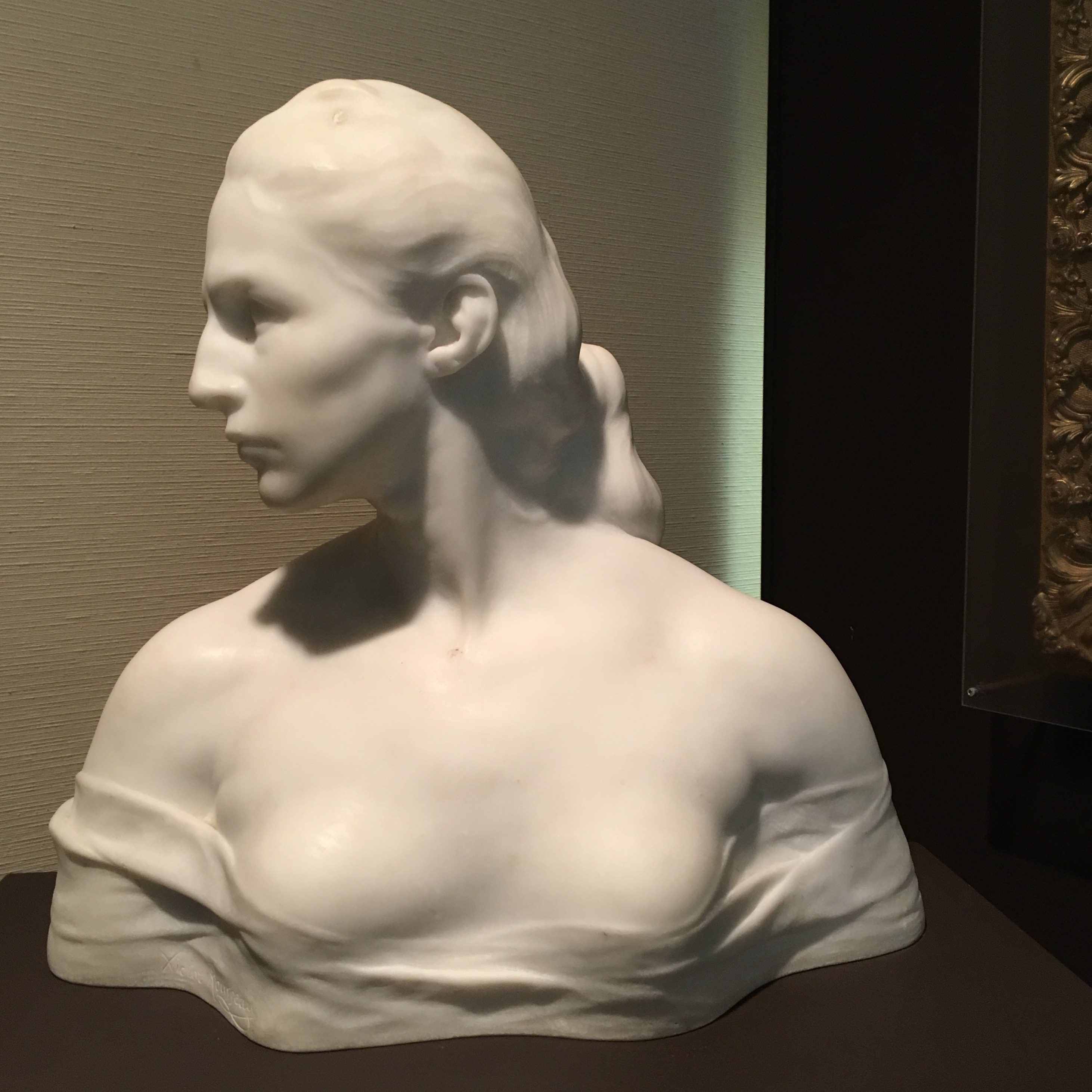 This is a file created at the museum: Musée royal de Mariemont in Morlanwelz